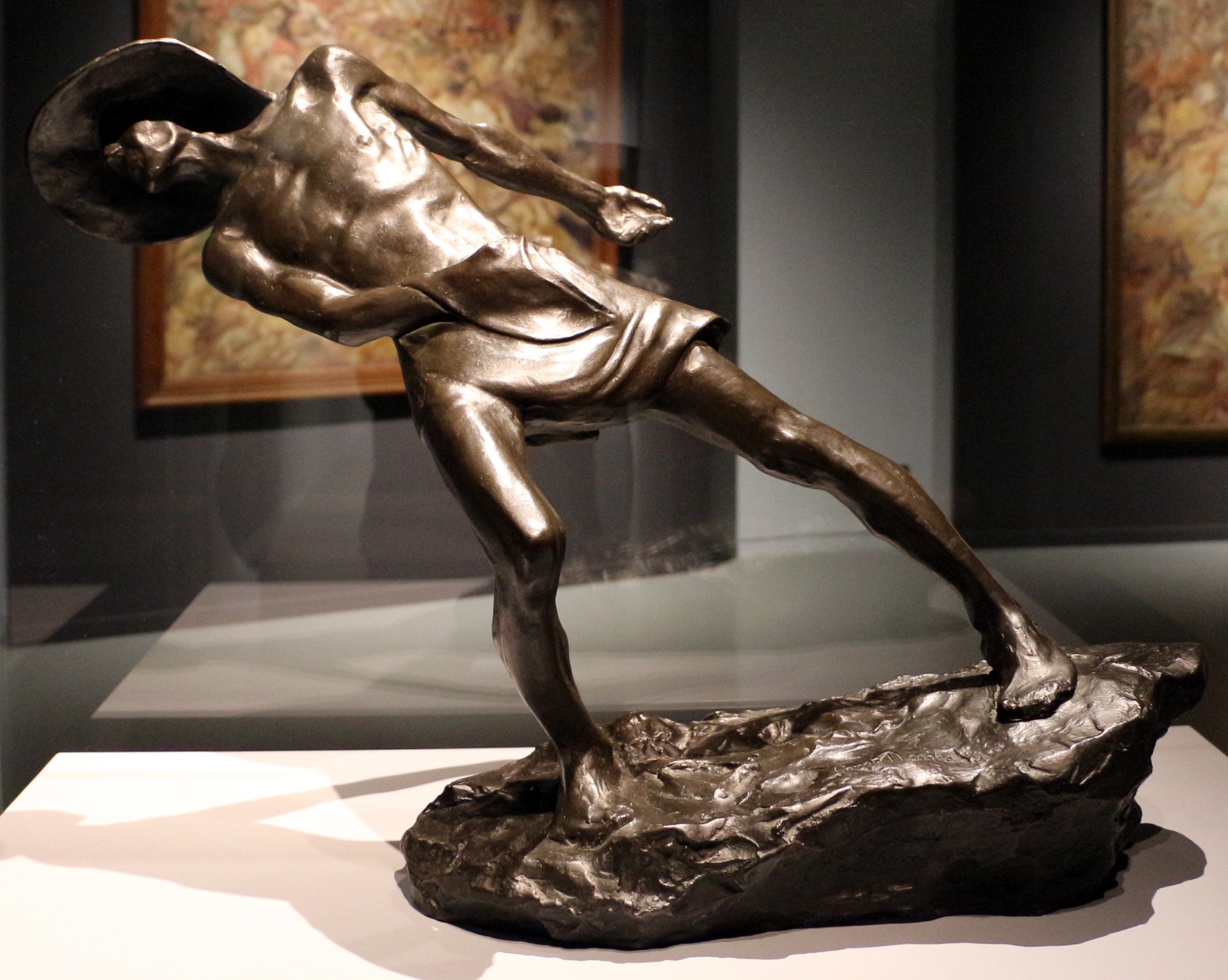 Fin de Siècle Museum